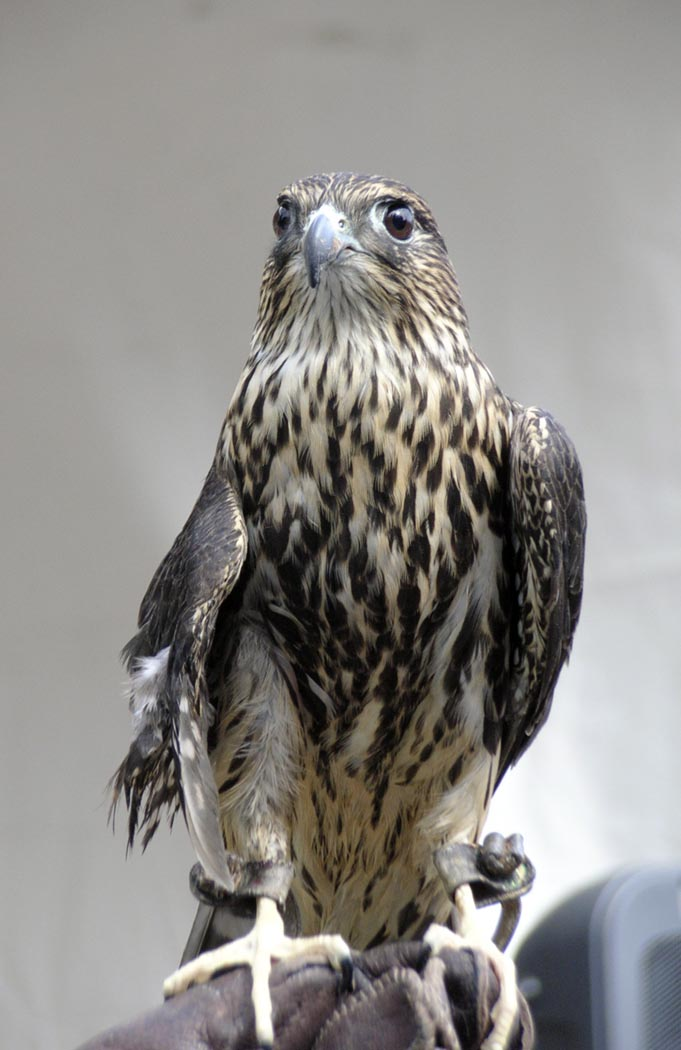 Falcon (Falco sp.) at Bird Treatment and Learning Center, Potter Marsh, Anchorage